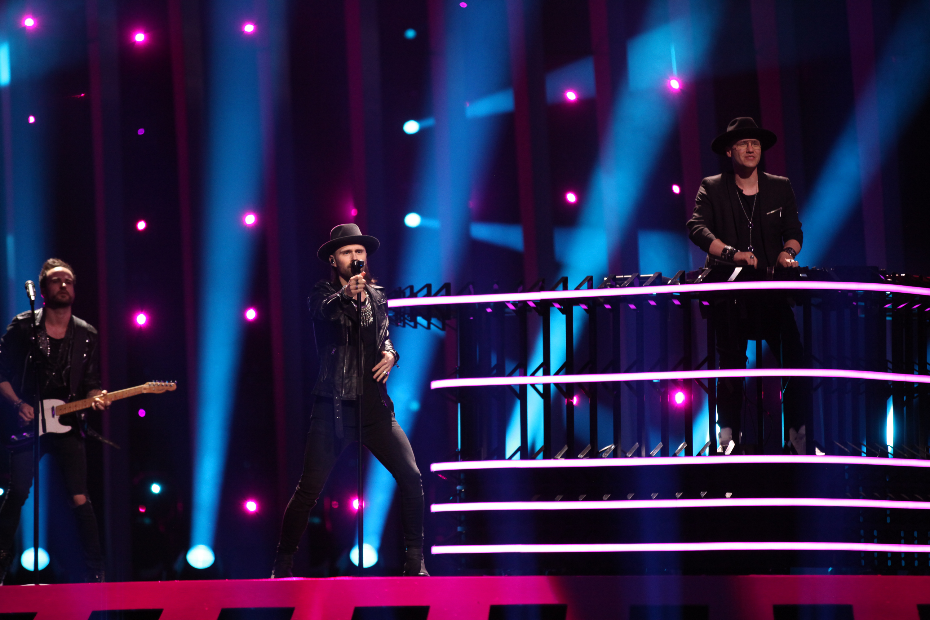 Gromee feat. Lukas Meijer representing Poland with the song "Light Me Up" during a rehearsal before the second semi final of the Eurovision Song Contest 2018 in Lisbon.